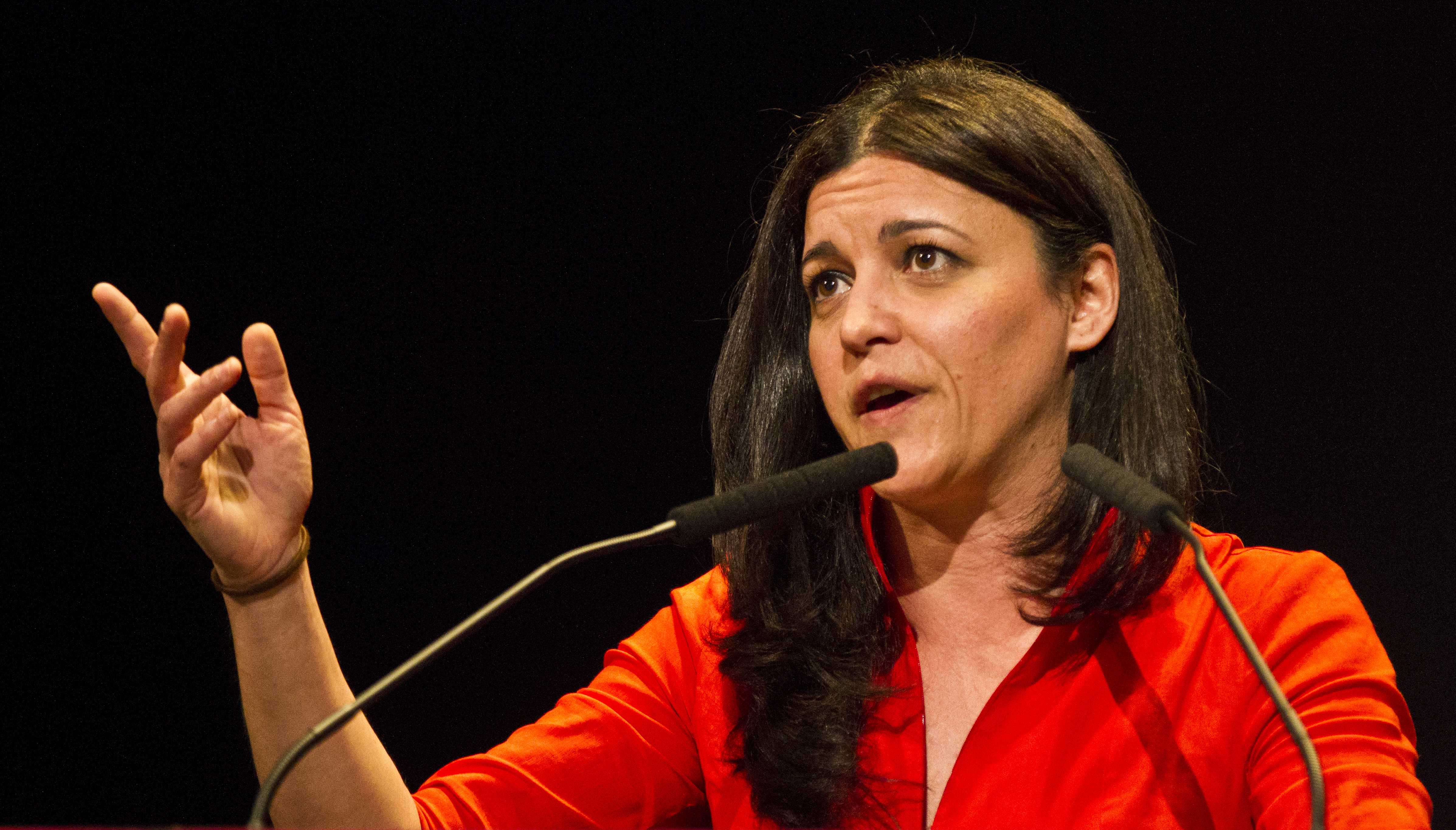 Marisa Matias